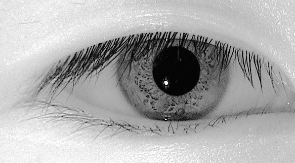 This picture shows what a "dark brown" iris looks liike in near infrared light in the 700nm - 900nm band, as used in iris cameras, revealing much more structure than would be visible in the visible band.